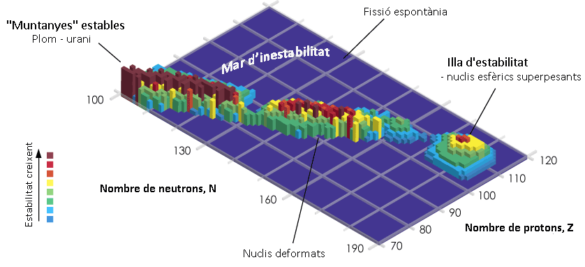 Representació en 3 dimensions de la teòrica illa d'estabilitat en física nuclear.